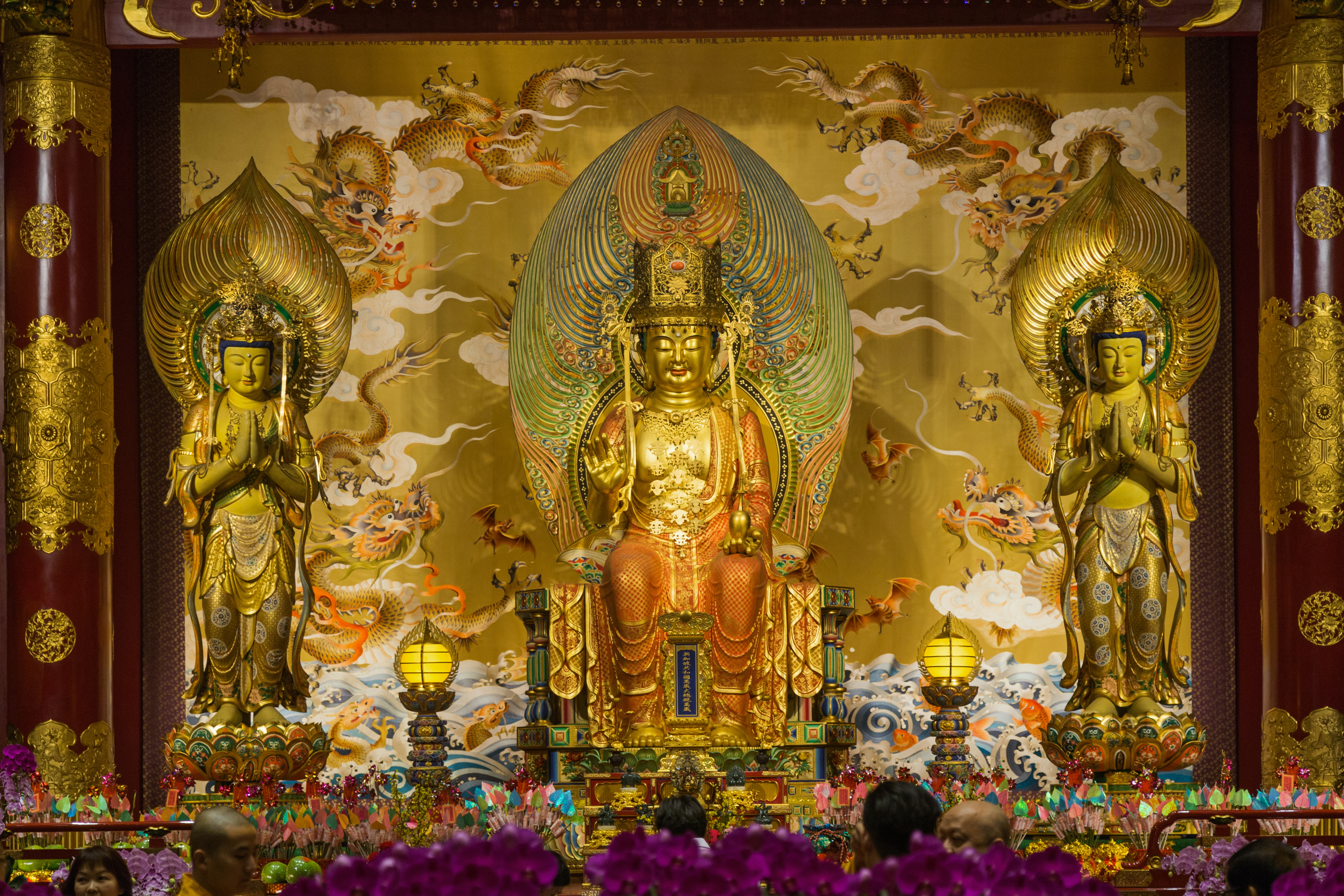 Buddha Tooth Relic Temple and Museum. Chinatown, Central Region, Singapore.